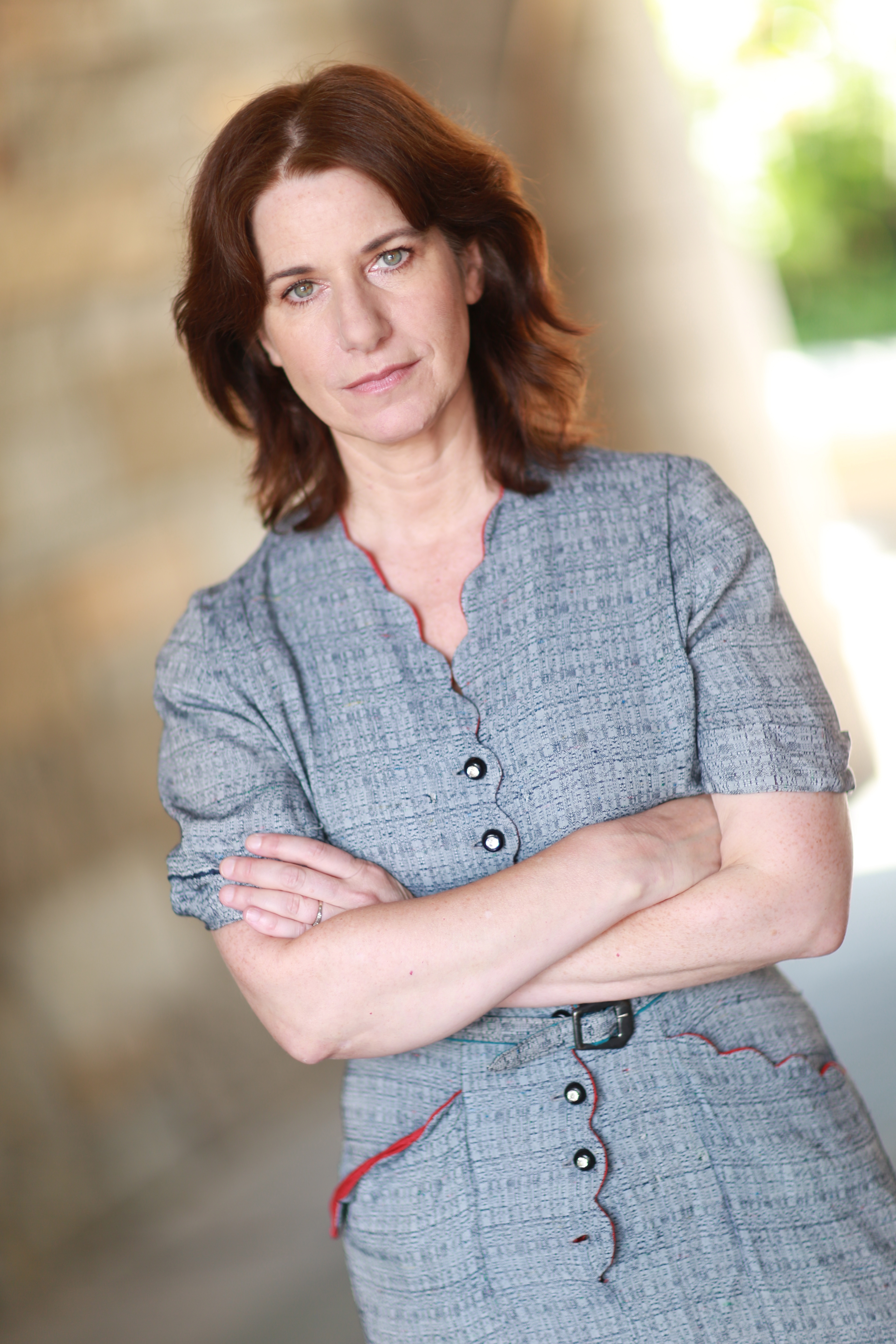 Headshot of actress, Bernadette Quigley, in NYC, 2017